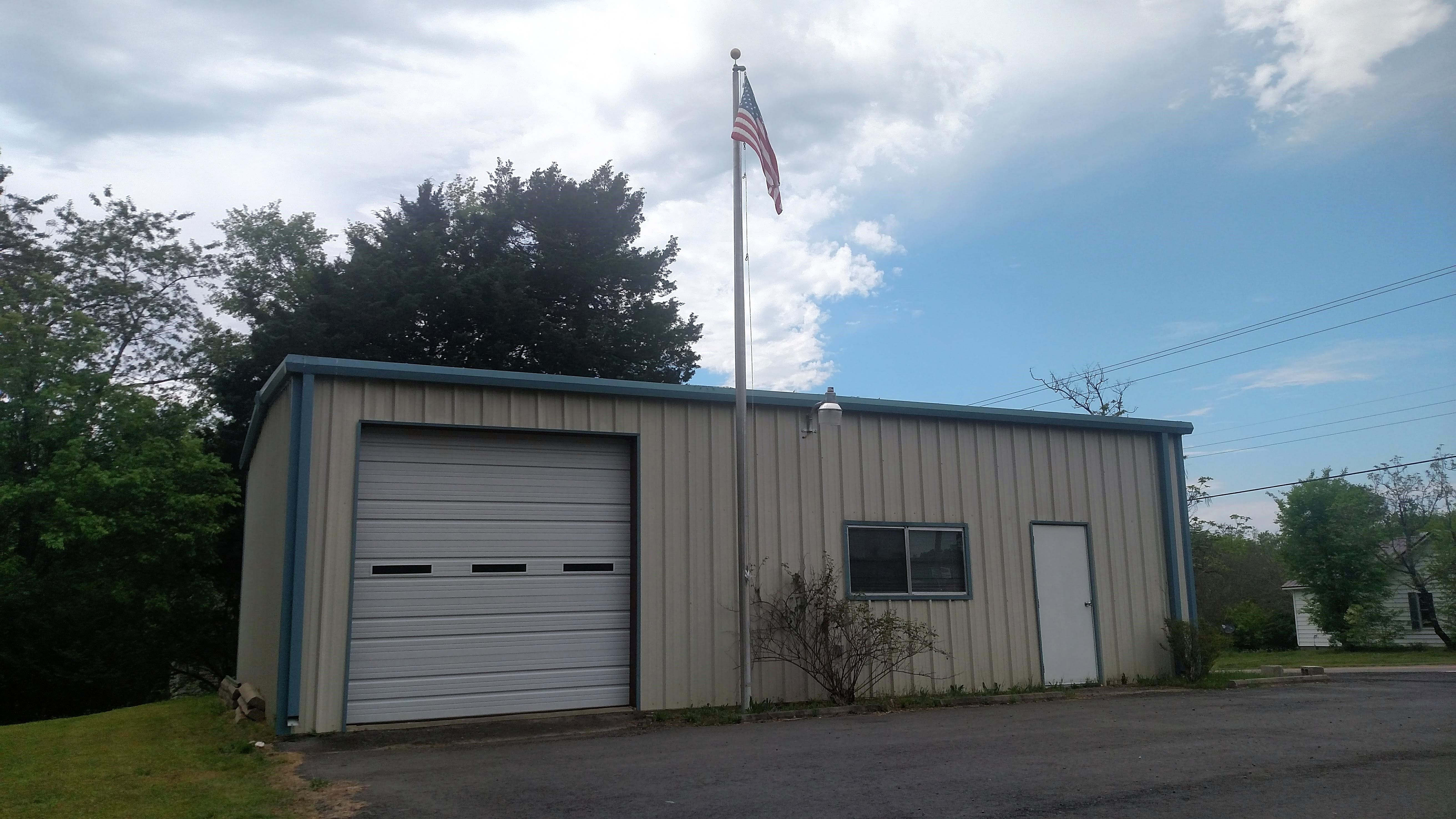 Black Springs Community Center in the town of Black Springs, Arkansas. Located at 1111 Hwy. 8 West, Norman BLACK SPRINGS, AR 71960